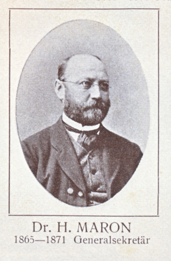 Hermann Maron